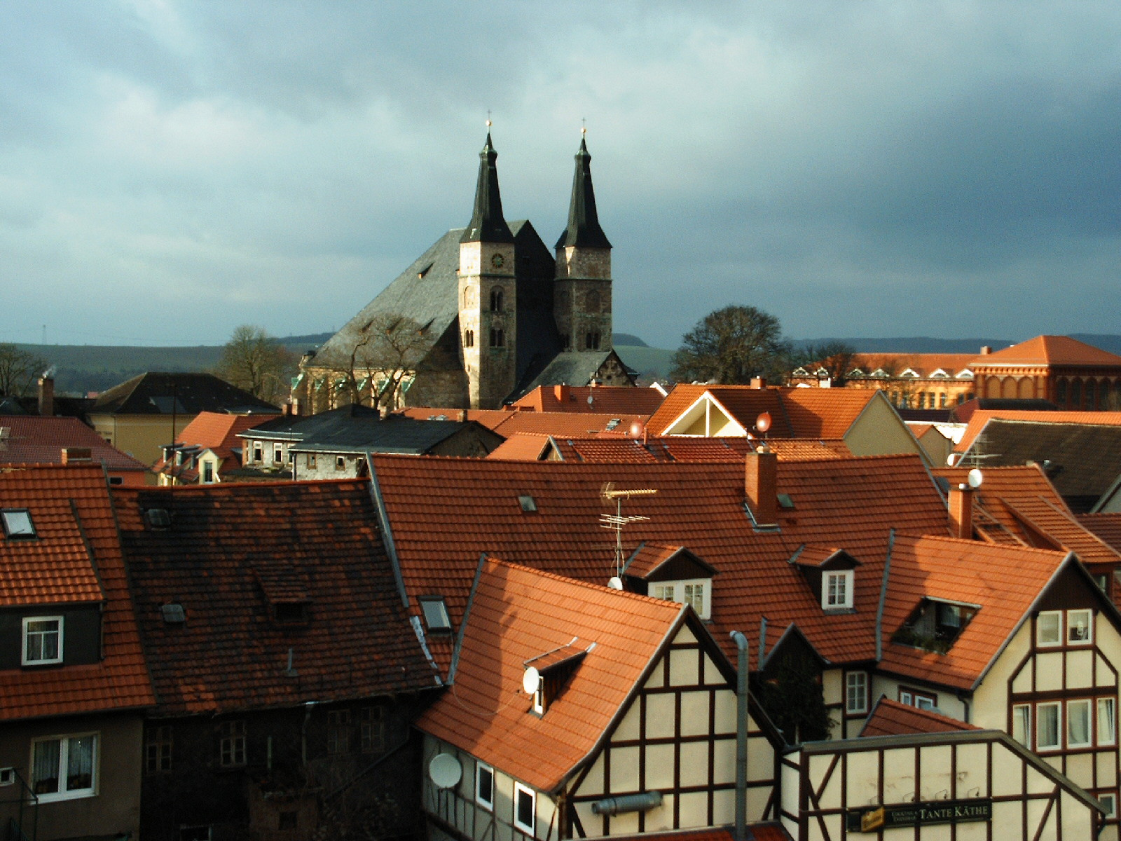 Cathedral of Nordhausen. Source: Photo taken by S.Schmitt, originally uploaded to Bild:DomNDH.jpg by Benutzer:Bastindh: 10:49, 25. Aug 2005 . . Bastindh . . 1600 x 1200 (538182 Byte) (Dom von Nordhausen S.Schmitt selbst fotografiert))